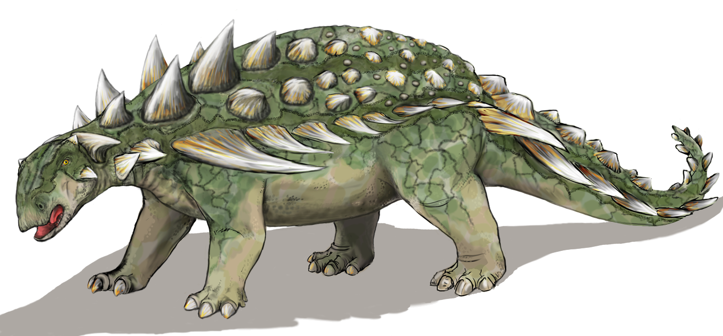 the image shows a reconstruction of a Gastnia dinosaur